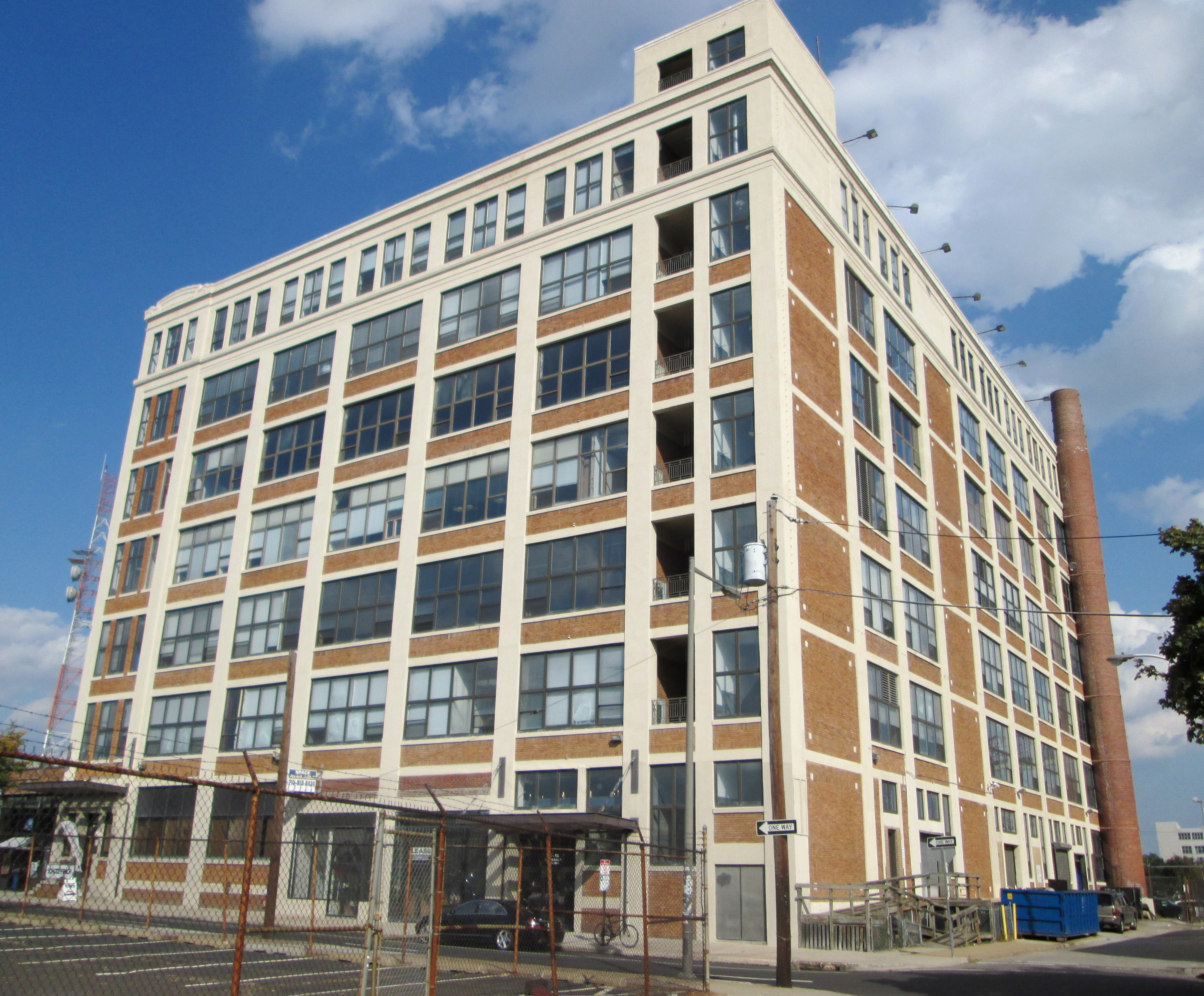 The General Electric Switchgear Plant at 421 North 7th Street on the corner of Willow Street in the Callowhill neighborhood of Philadelphia, Pennsylvania, was built in 1916 and designed by William Steele & Company for General Electric, which manufactured electric switchboards there. It was added to the NRHP in 1985. Currently, a music venue, The Electric Factory, occupies part of the building.